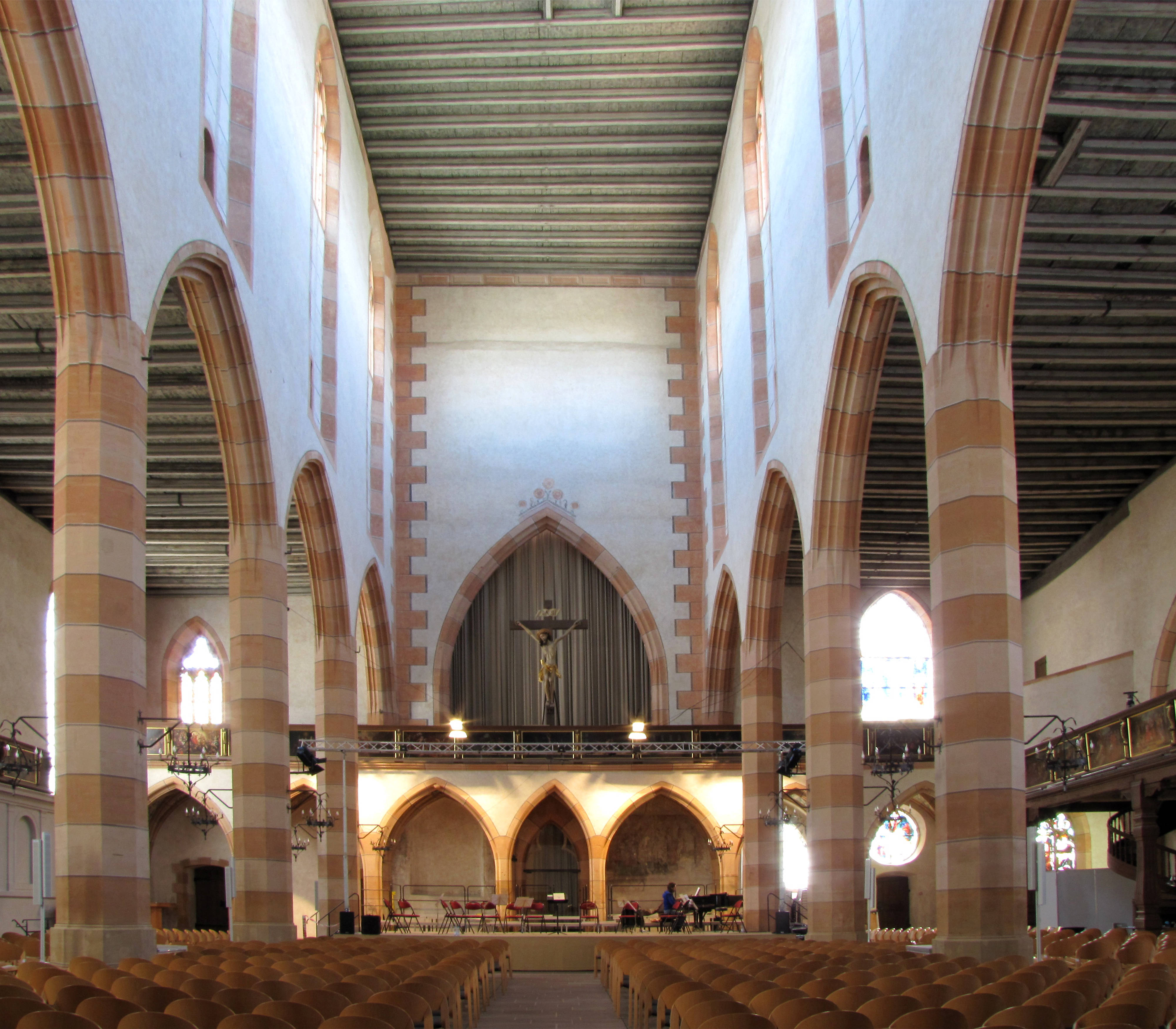 Interior of St-Matthieu's Church in Grand'Rue in Colmar (Haut-Rhin, France).